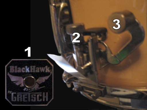 Snare drum